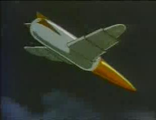 Screenshot of the animated short The Bulleteers.